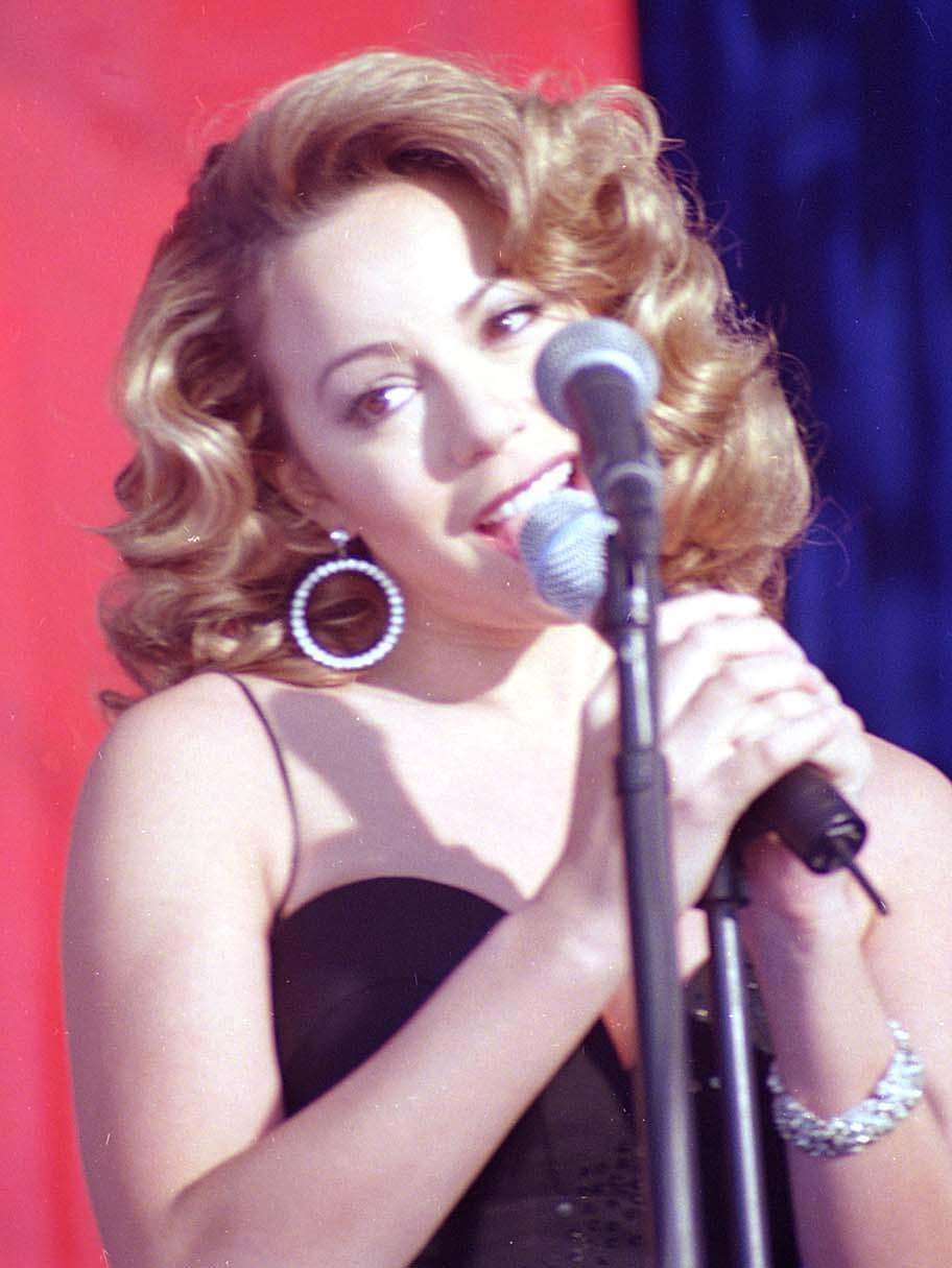 Mariah Carey at Edwards Air Force Base in Dec. 1998. Carey takes time out of her video shoot to sing for the crowd. Her video "I Still Believe" was taped on Dec. 11 and 12, 1998, at Edwards Air Force Base.